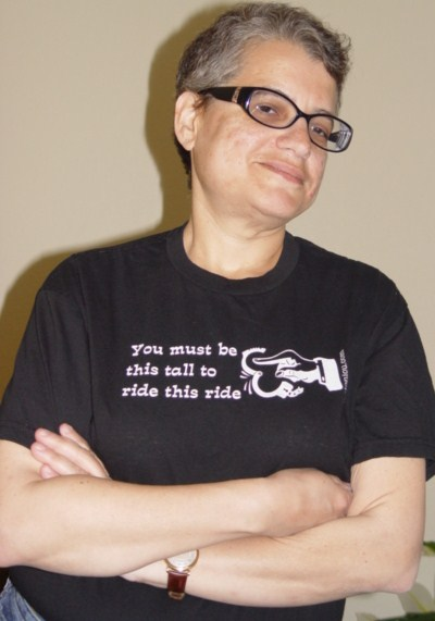 A Photograph of Laura Antoniou from The Marketplace Wiki project page